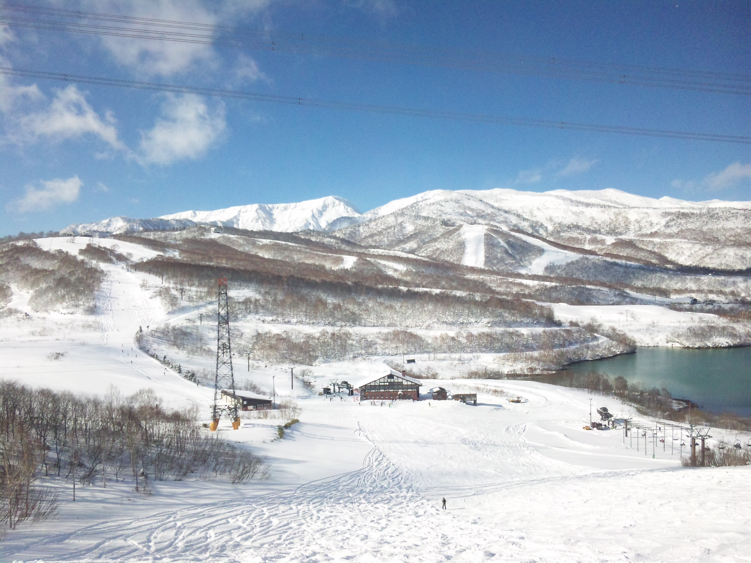 Mount Naeba (left) and Kaguragamine (right) seen from the East. Shot at Kagura Ski Resort.